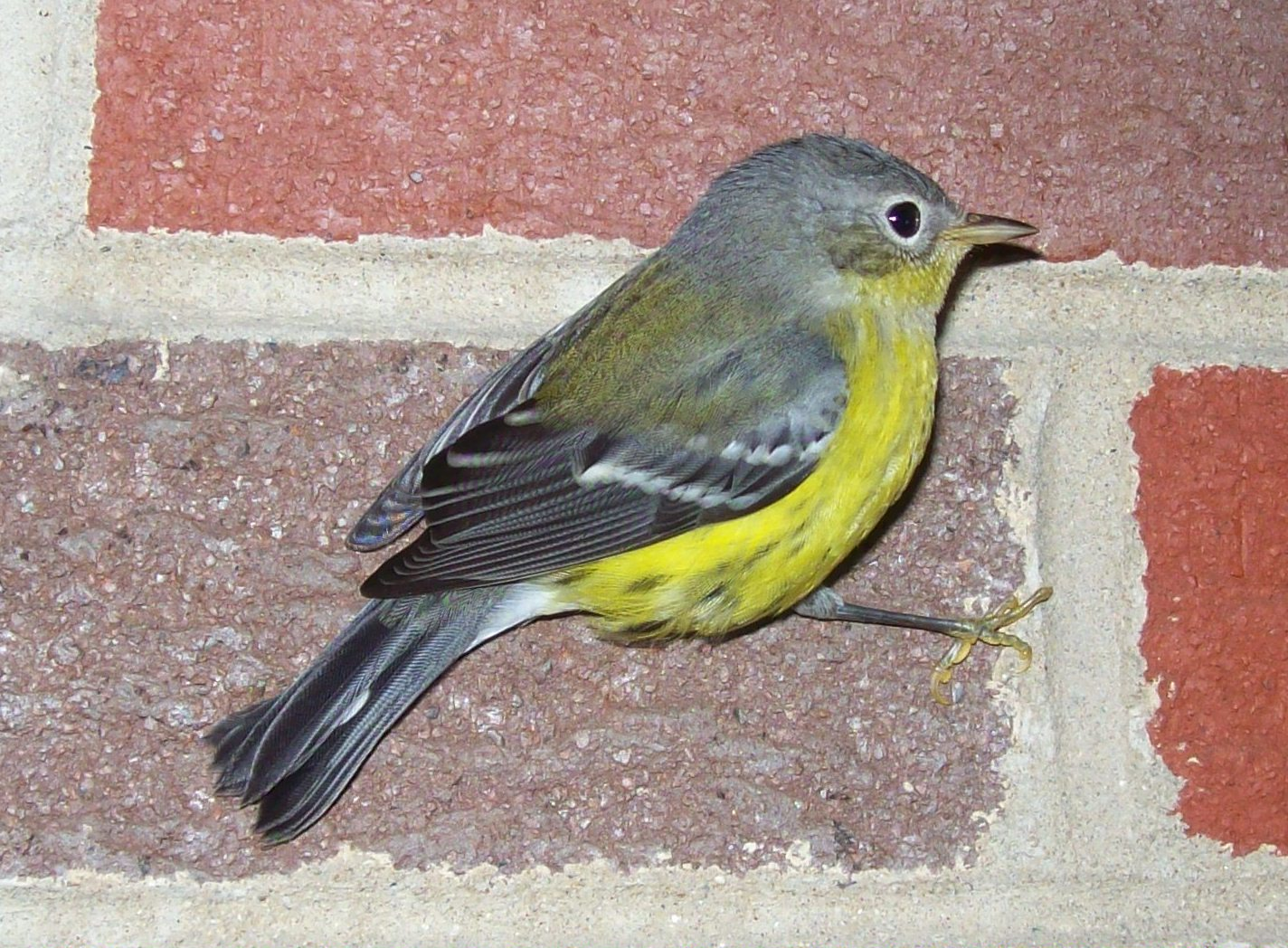 Magnolia Warbler, Dendrocia magnolia